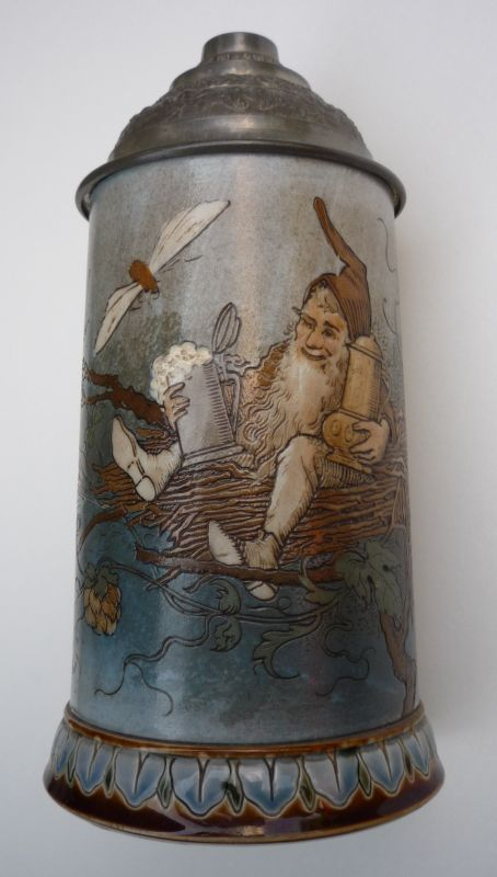 Villeroy & Boch: Jar from incised stoneware (design: Heinrich Schlitt)